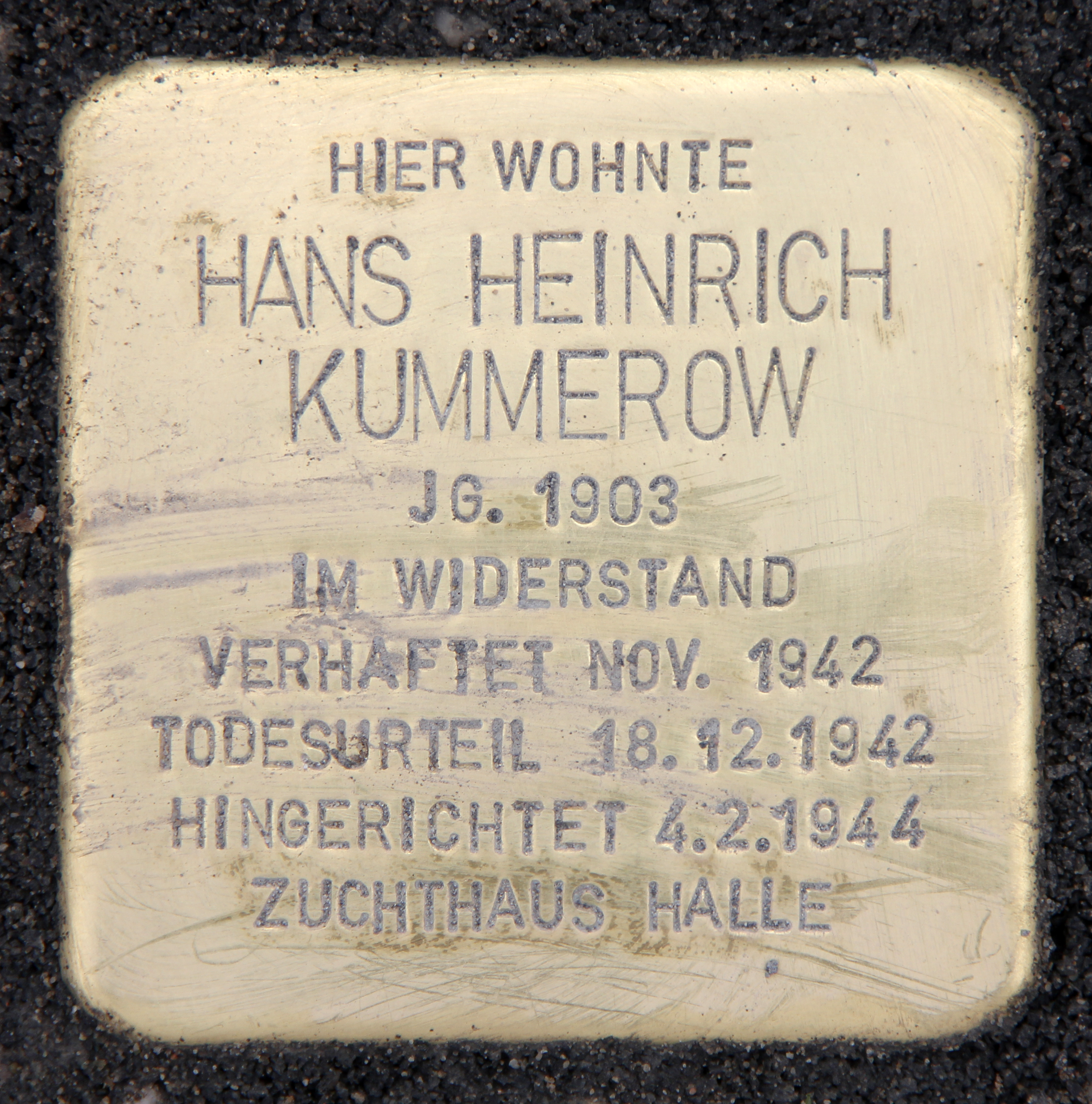 "Stolperstein" (stumbling block), Hans Heinrich Kummerow, Spanische Allee 166, Berlin-Nikolassee, Germany